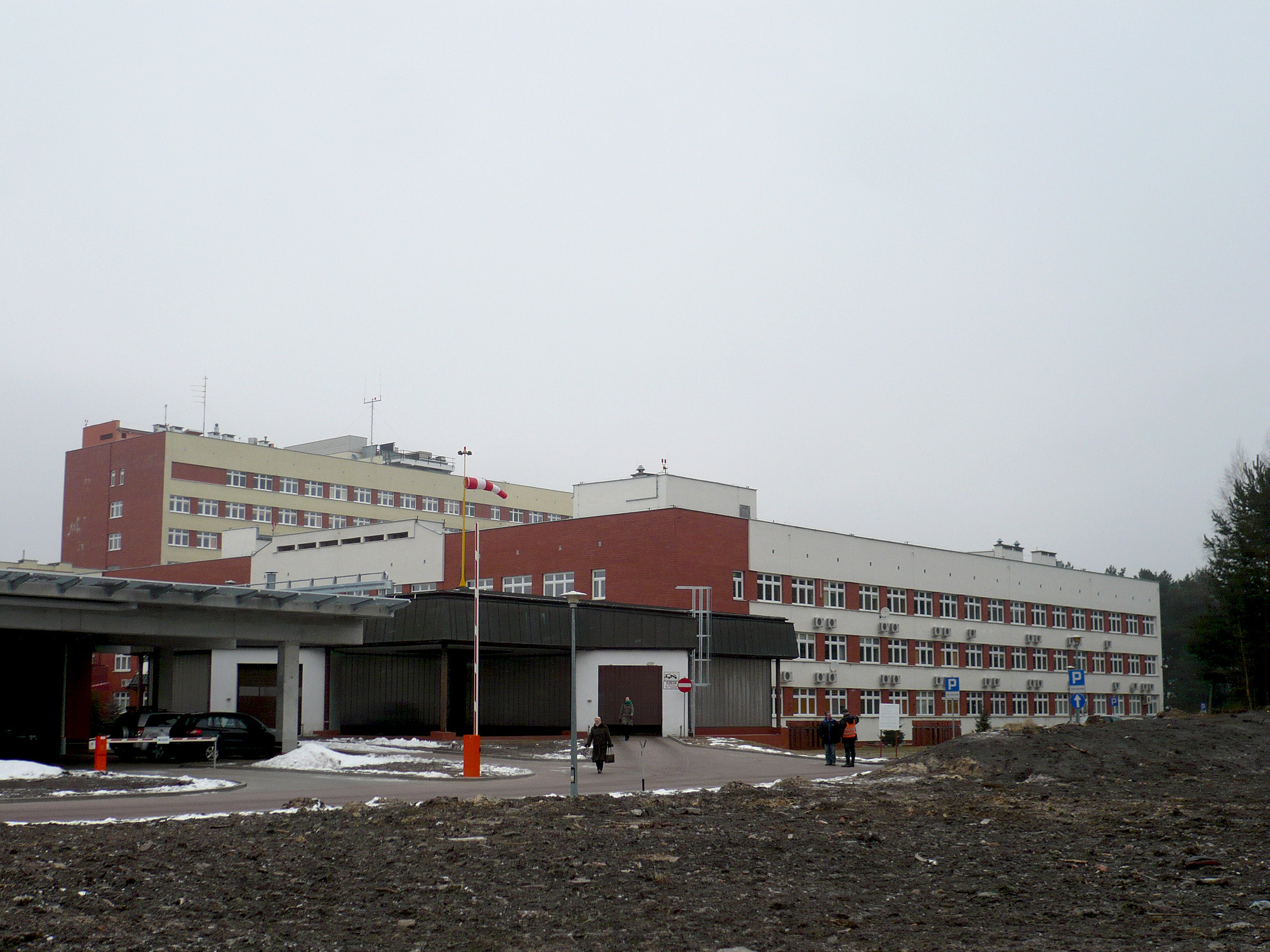 Hospital in Grudziadz